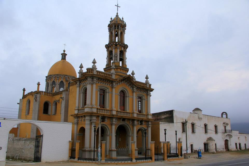 Capilla y hacienda de San Antonio Limón, Totalco, en Perote, Veracruz.